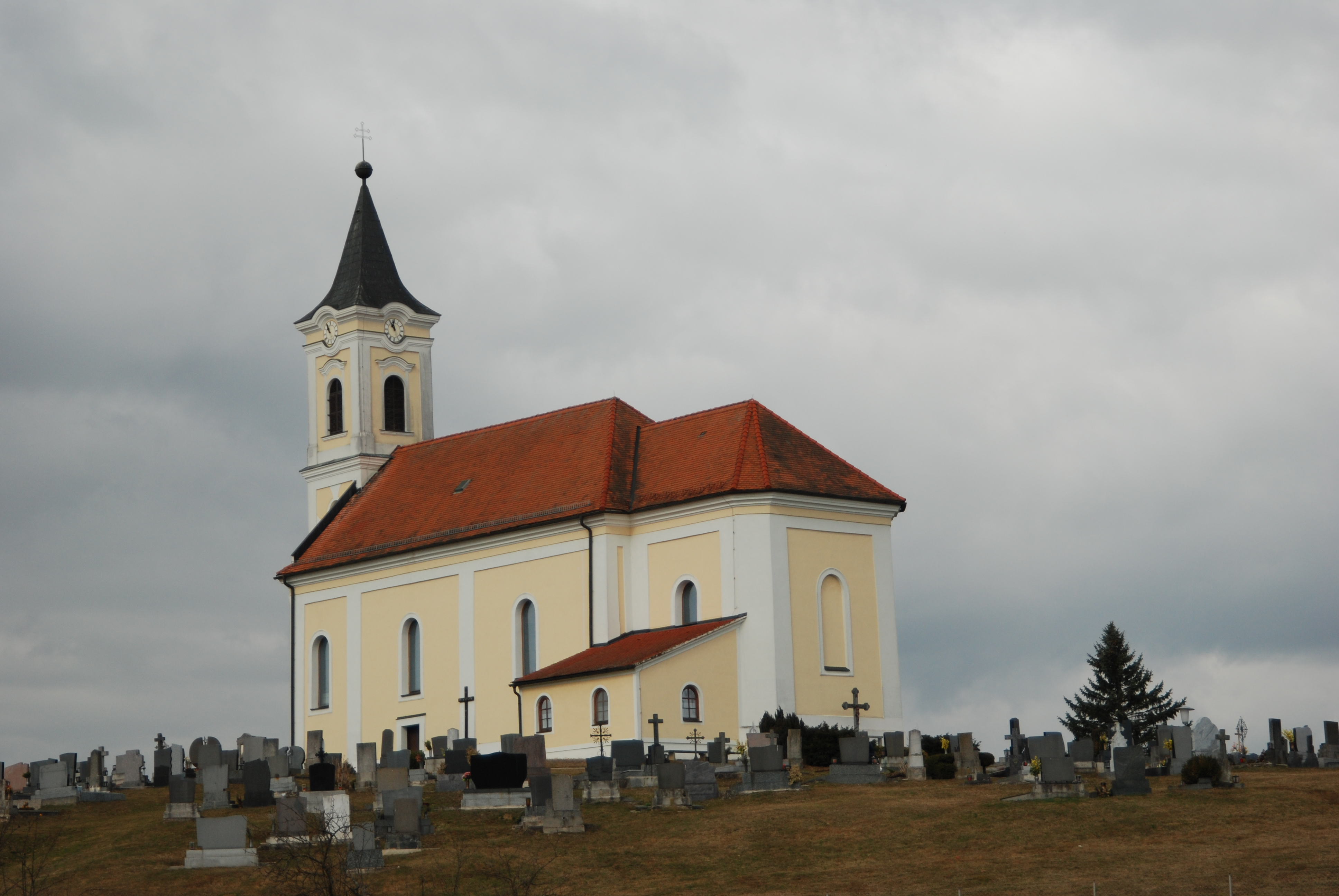 Pfarrkirche Litzelsdorf